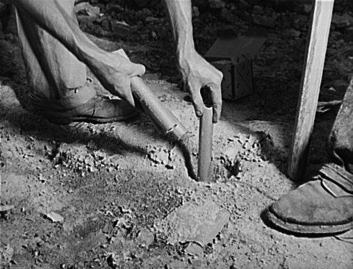 Tennessee Valley Authority. Construction of Douglas Dam. Placing a dynamite charge in a blast hole in bedrock at the site of TVA's new Douglas Dam on the French Broad River. This dam will be 161 feet high and 1,682 feet long, with a 31,600 acre reservoir area extending forty-three miles upstream. With a useful storage capacity of approximately 1,330,00 acre feet, this reservoir will make possible the addition of nearly 100,000 kilowatts of continuous power to the TVA system in dry years and almost 170,000 kilowatts in the average year